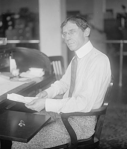 Norman Hapgood (1868-1937), American writer, journalist, editor, and critic, seated at desk.